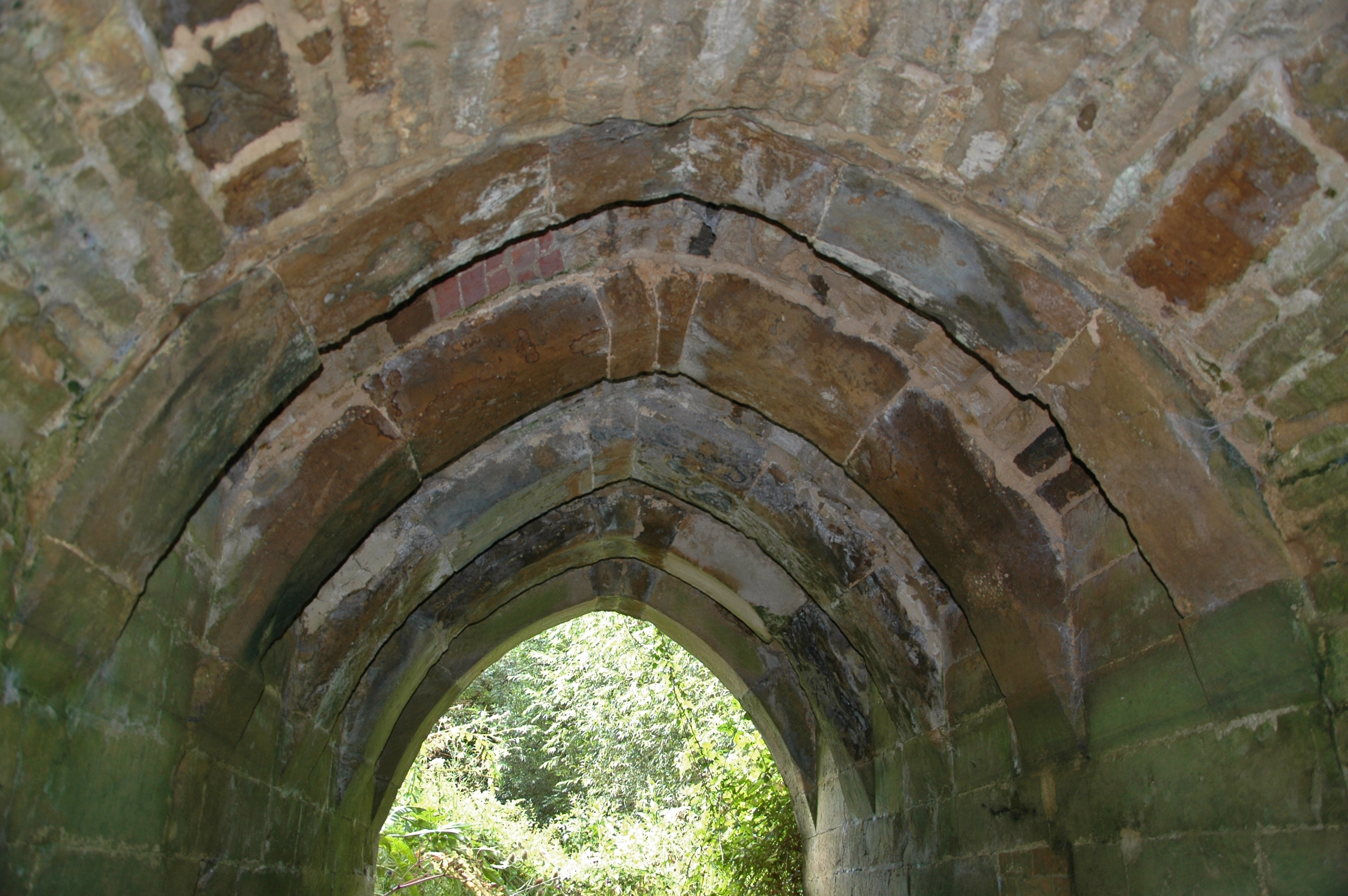 Gothic vault of culvert next to medieval road bridge over the River Cherwell at Lower Heyford, Oxfordshire